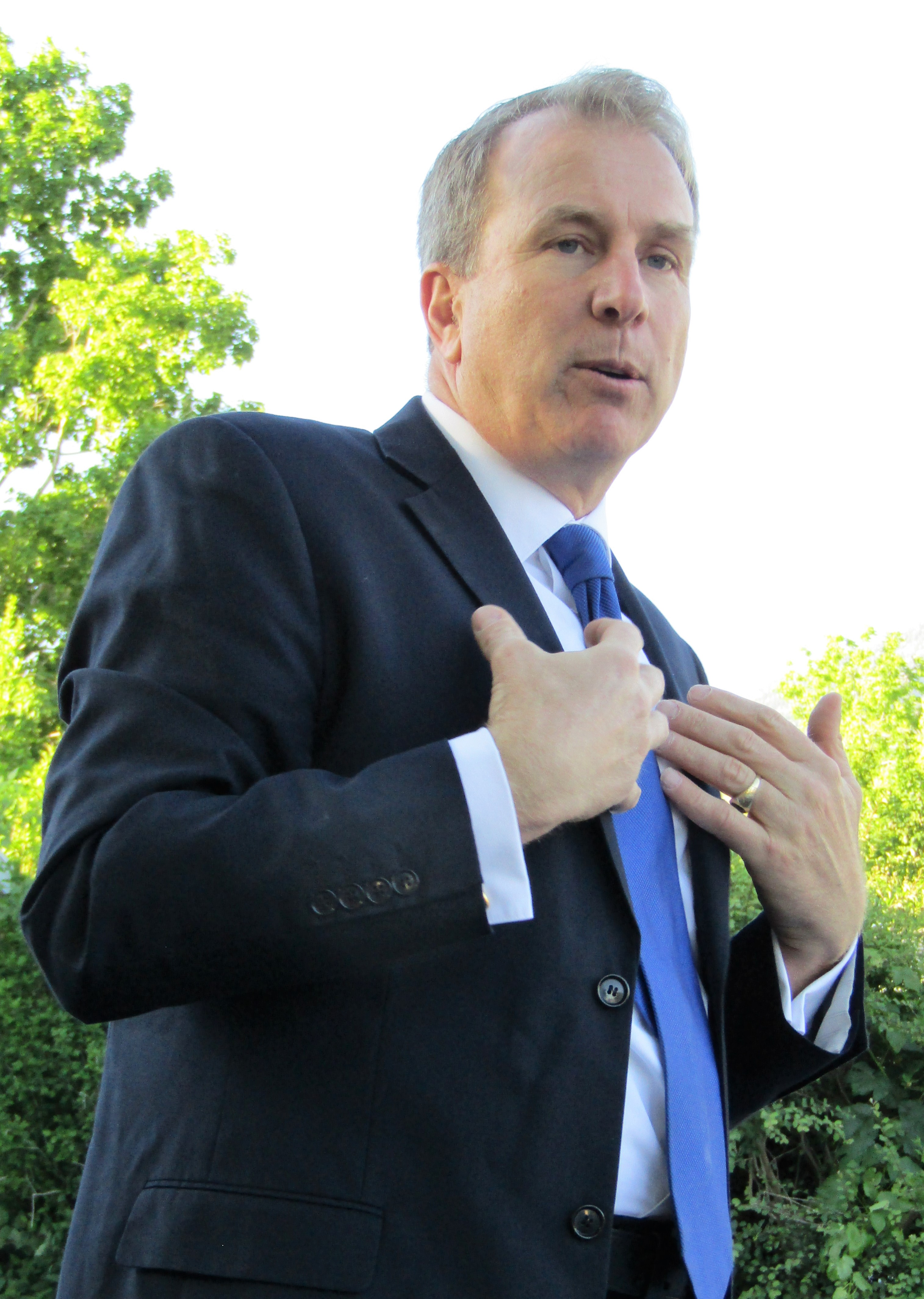 Chris Herrod at a congressional campaign event in Provo, Utah.